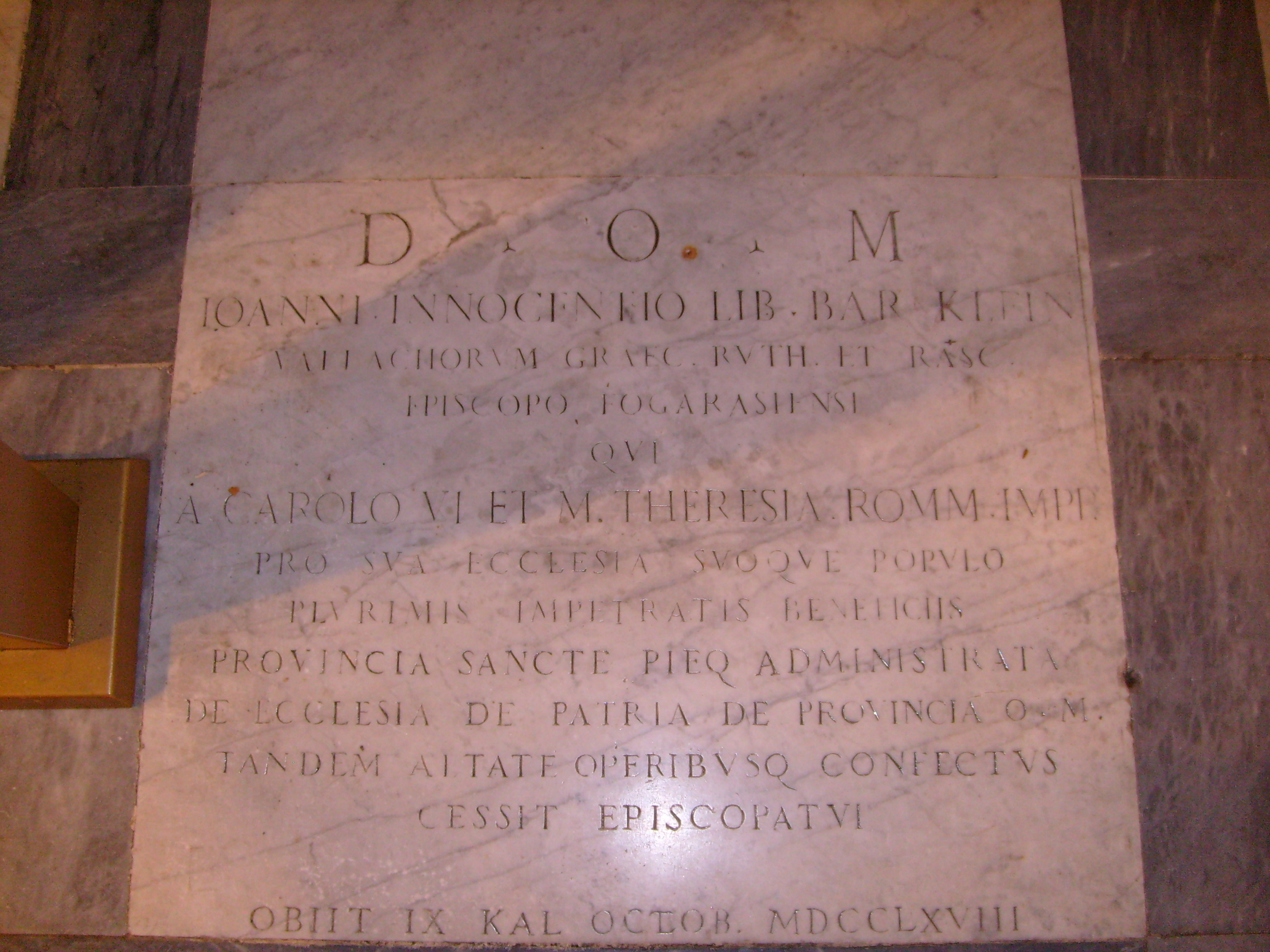 Bishop Micu-Klein's funeral stone in the church Santi Sergio e Bacco, Rome.